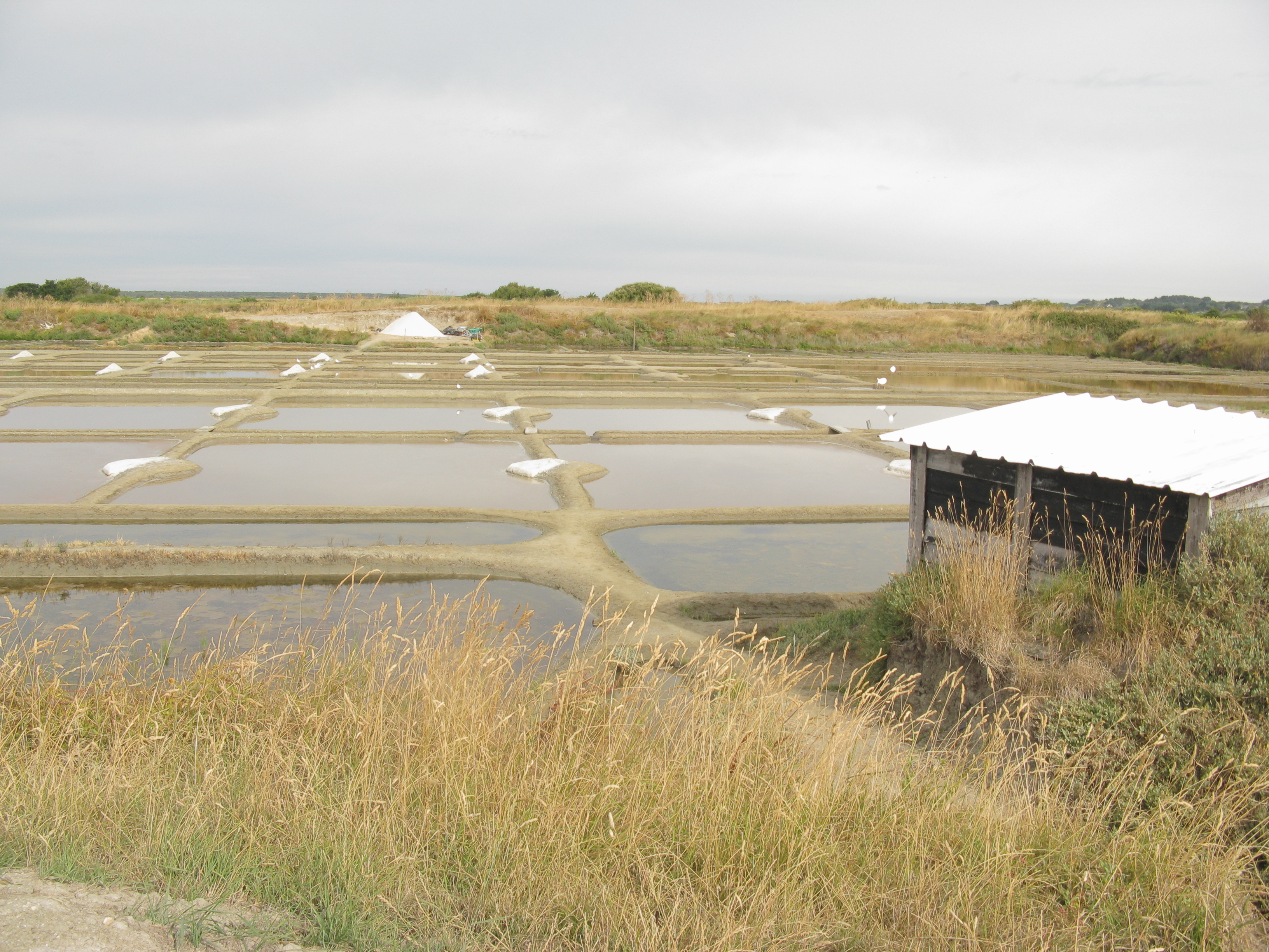 Basins for the production of salt in the salt marhes of Guérande, Loire-Atlantique, France.